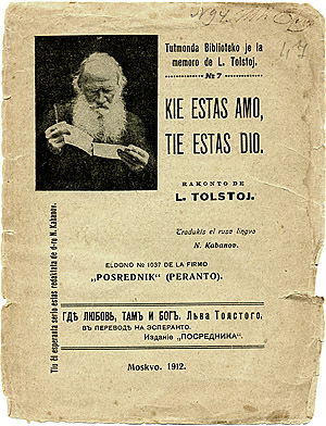 Paperback cover of Esperanto edition of "Where Love is, God is" by Leo Tolstoy